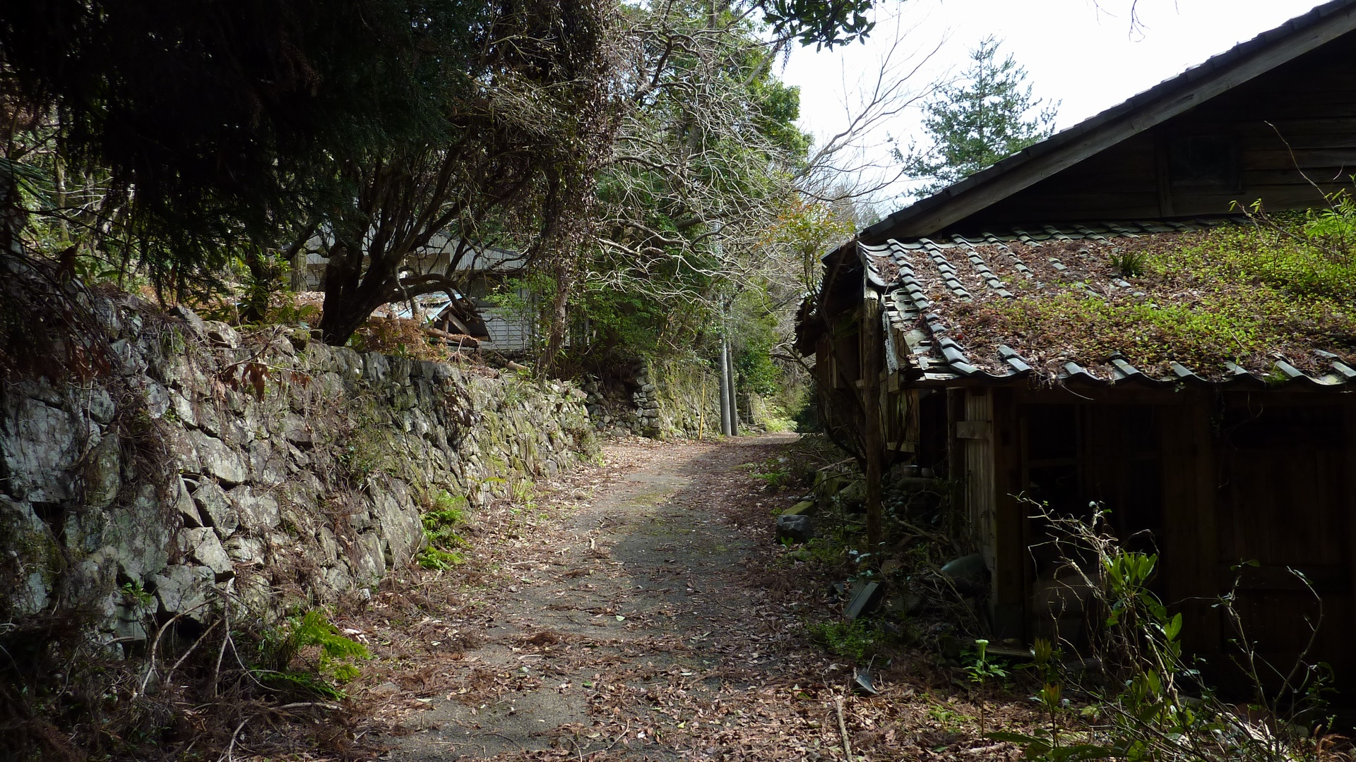 Sabukawa, Saito City, Miyazaki Prefecture, Japan.